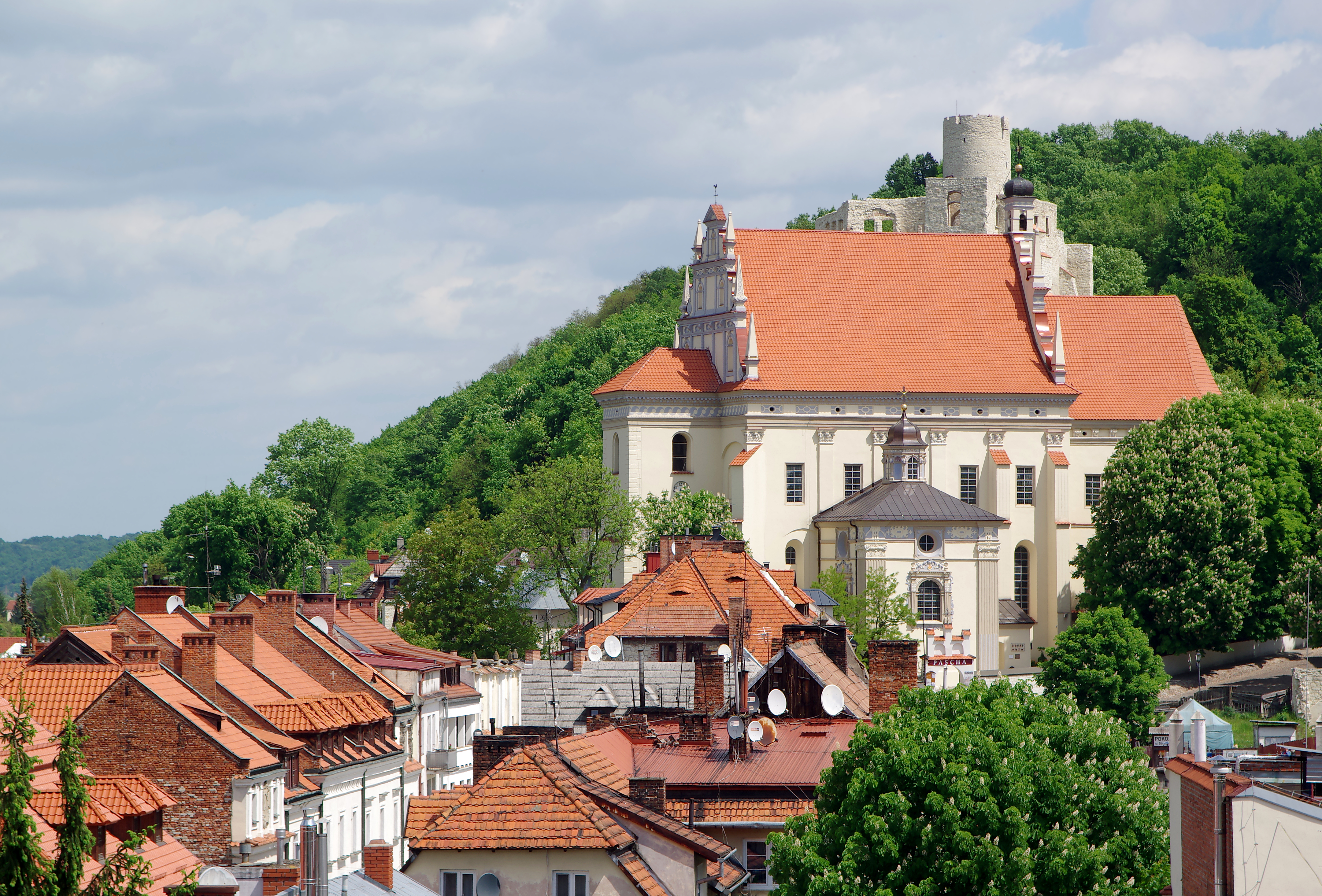 Kazimierz Dolny, view from Church of the Annunciation towards Saints John the Baptist and Bartholomew church and the castle